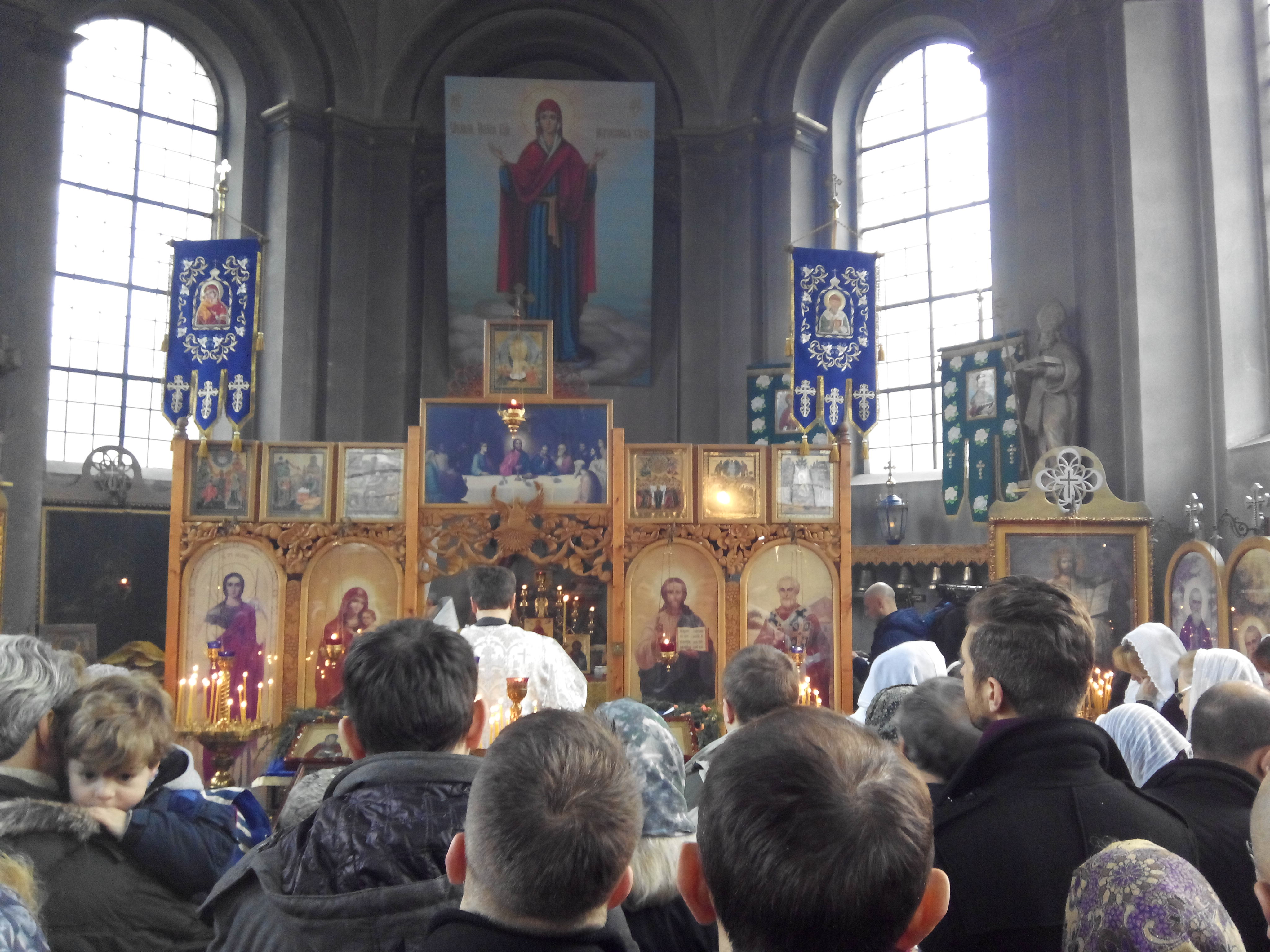 Russian Orthodox Christmas Service in the Alexius Chapel / Paderborn, Germany